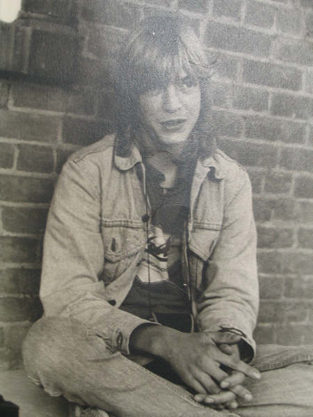 Michael J Straub